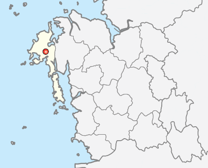 Map of Taean County in Chungcheongnam-do province, South Korea